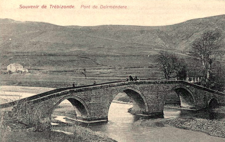 Postcard with a view over the ancient bridge of Degirmendere, Trebizond (Trabzon, Turkey).